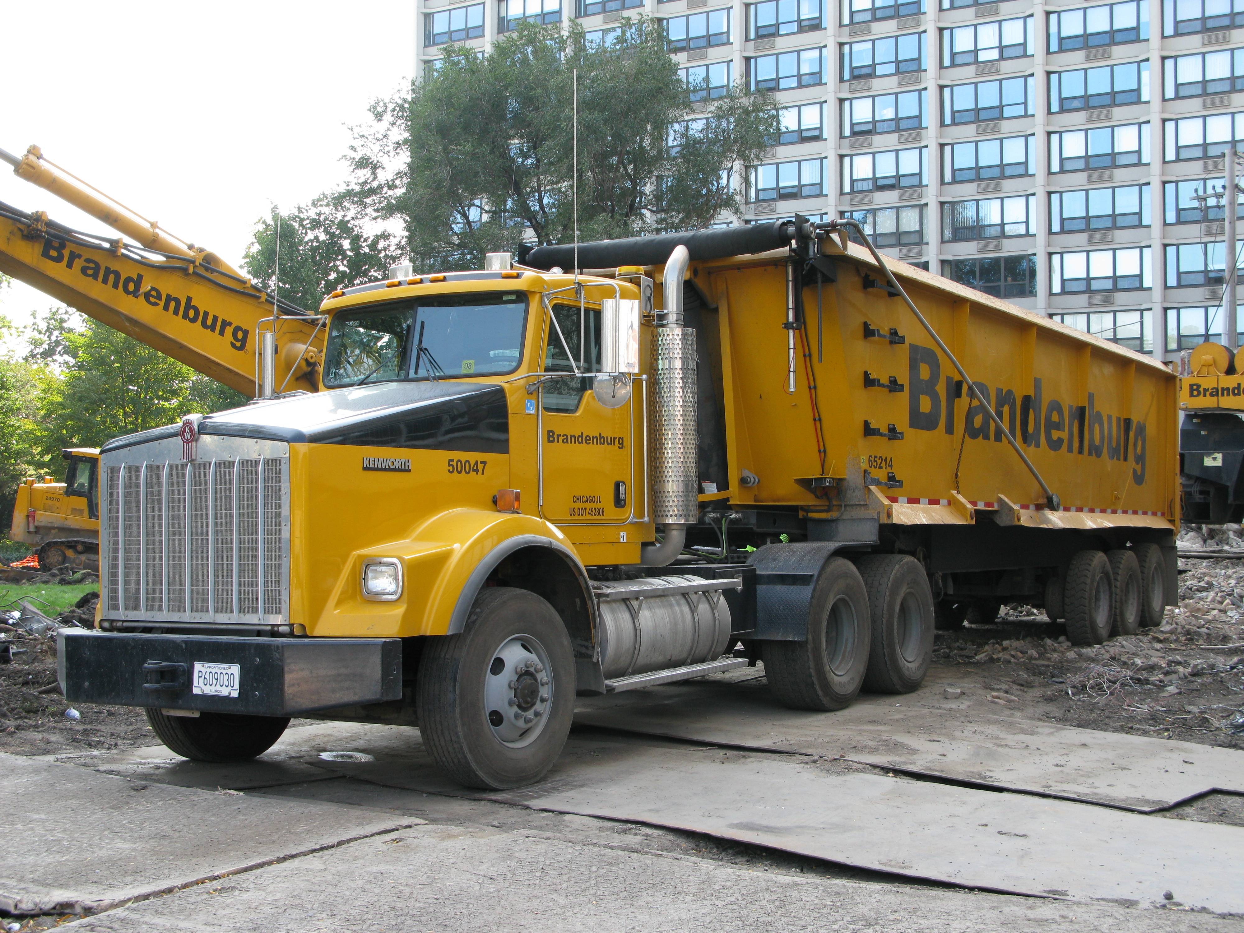 Kenworth Tractor Trailer Dump Truck, yellow, Brandenburg